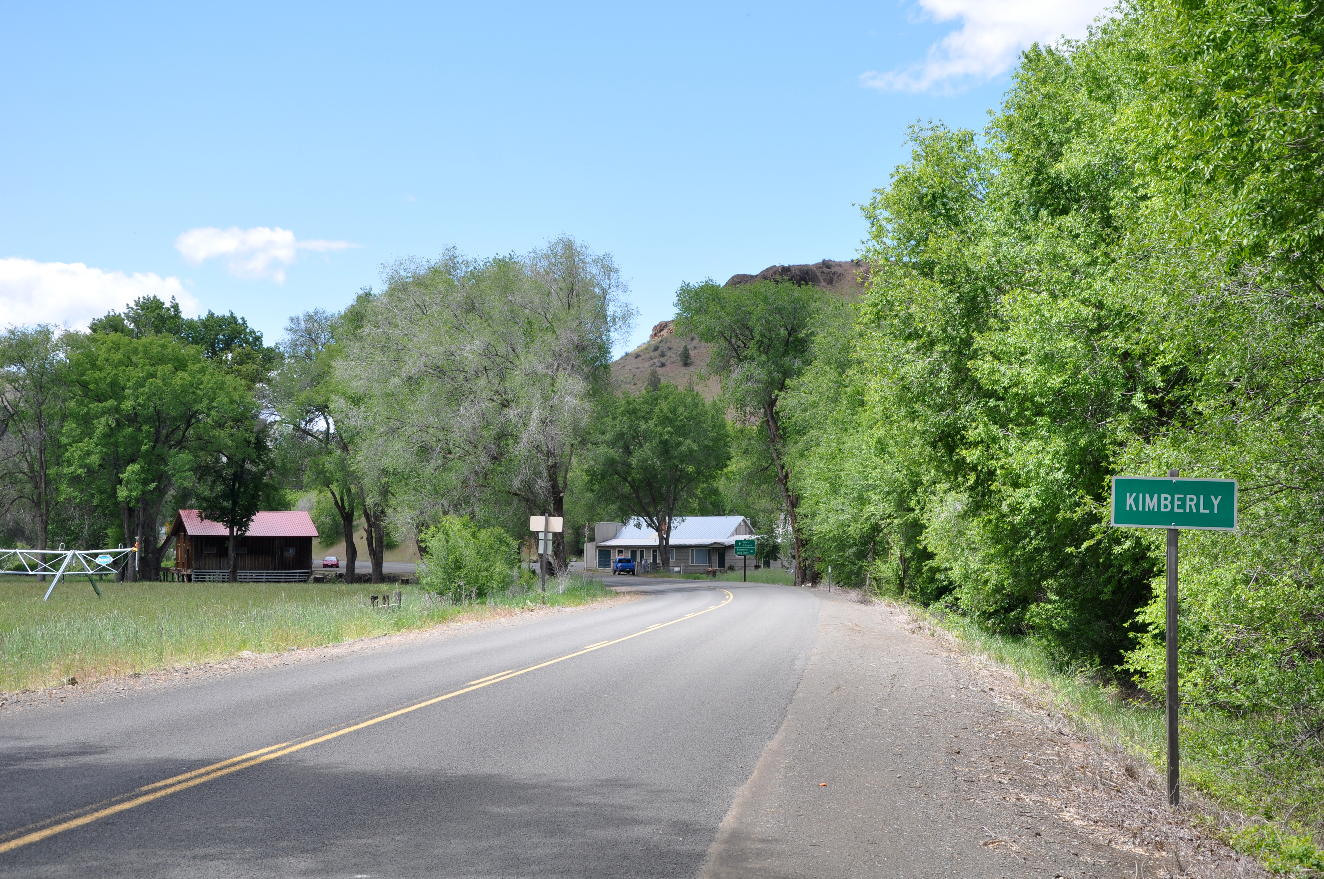 Unincorporated community of Kimberly in the U.S. state of Oregon.